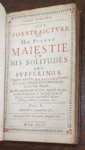 Title page of Eikon Basilike, 1649 ed.